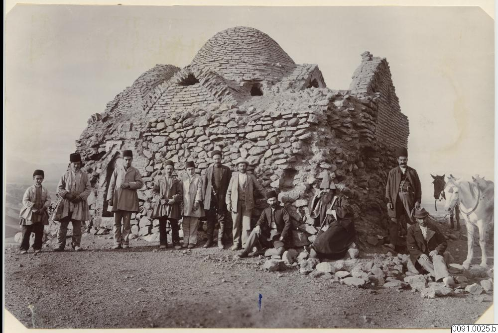 Vardan Mamikonian Tomb near Her (Khoy)